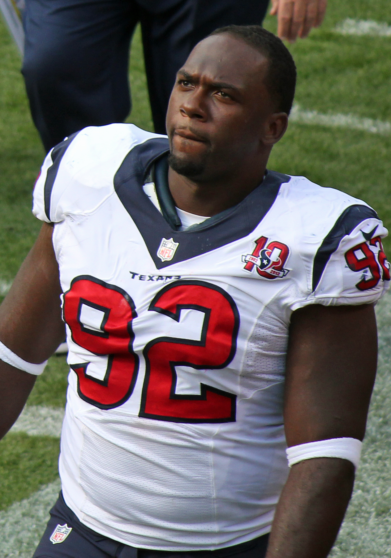 Earl Mitchell, a player on the National Football League.